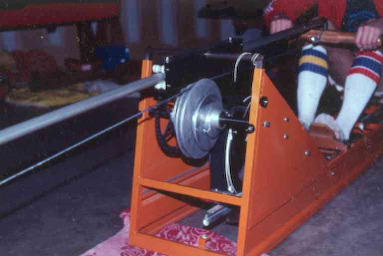 Closeup of the Gjessing rowing ergometer, Biomechanics Laboratory, University of British Columbia, Vancouver, BC